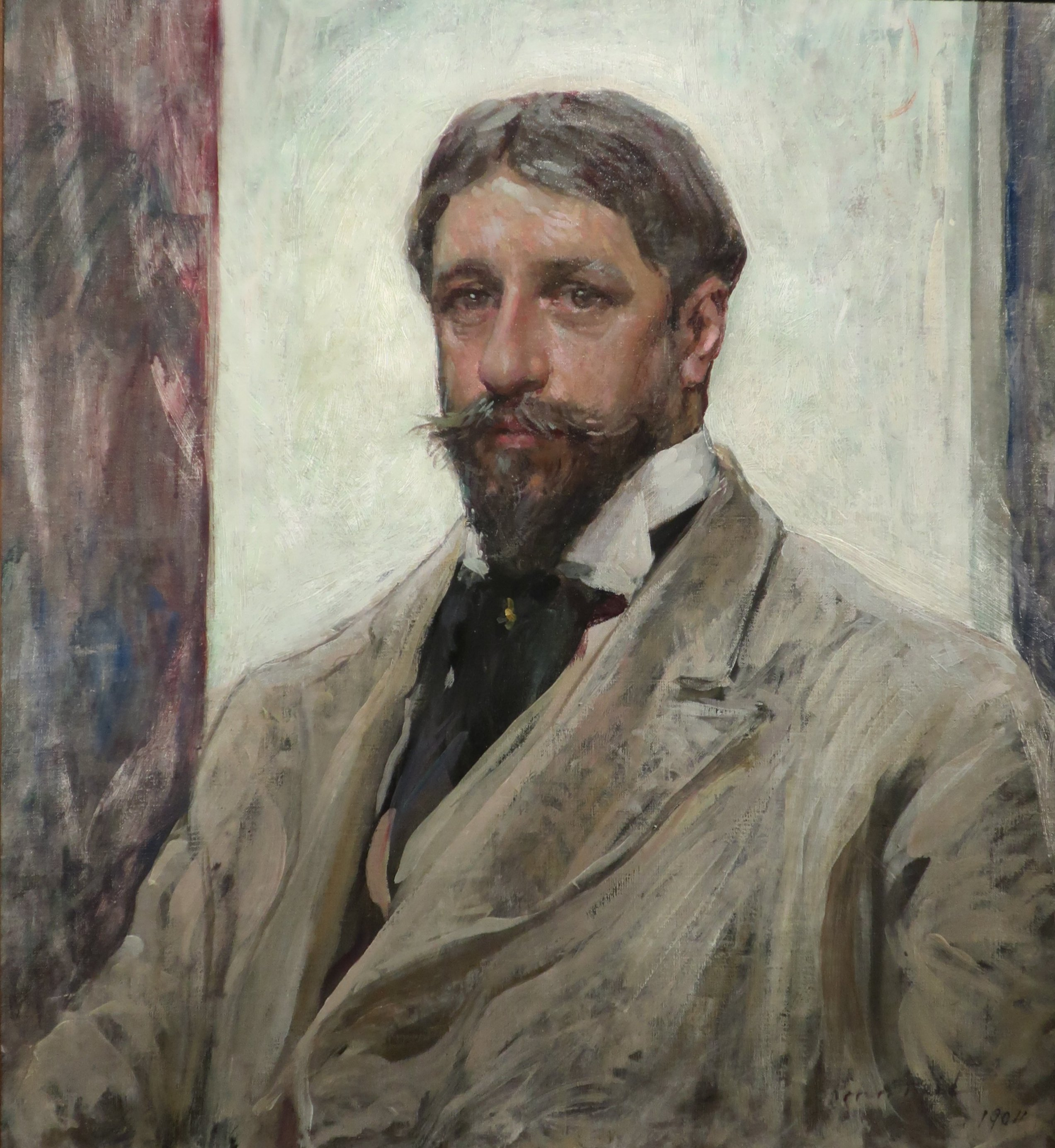 Self-portrait of Robert Lewis Reid, 1904, oil on canvas, National Academy of Design